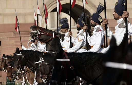 Honour guard, India